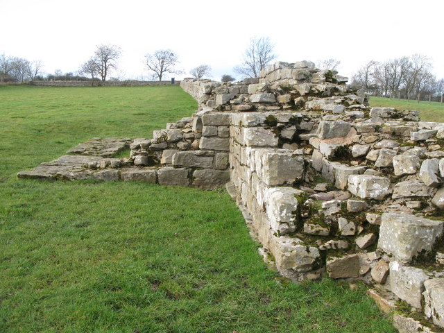 Turret 29a - Black Carts (4) The turret has wings of "wide" wall, presumably built before the Romans decided to build a "narrow" wall either side - the join is in the immediate foreground.